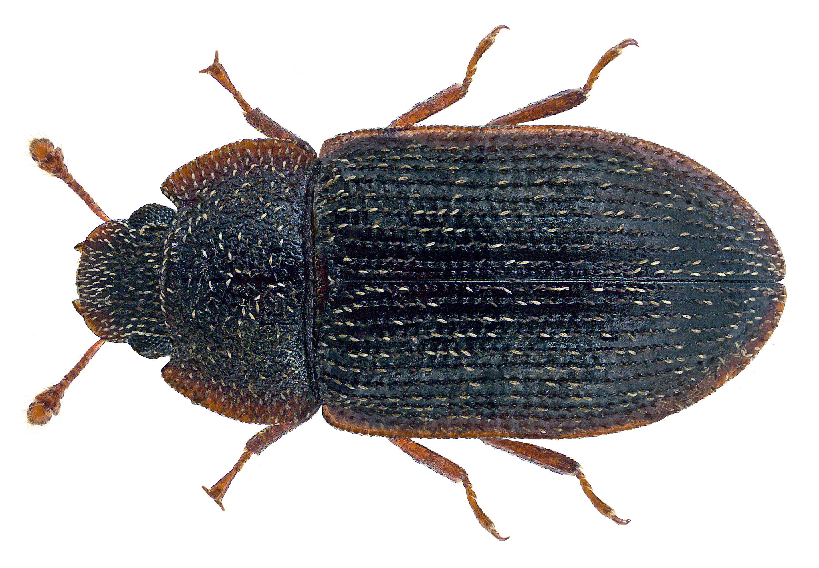 Family: Colydiidae (Zopheridae) Size: 4.1 mm Location: N-Vietnam, Prov. Cao Bang, vic. Vin Den, Nui Pia Oac Nat. Res., 900-1300 m leg. A.Skale, 6.-10.V.2013; det. Schuh, 2015 Photo: U.Schmidt, 2016